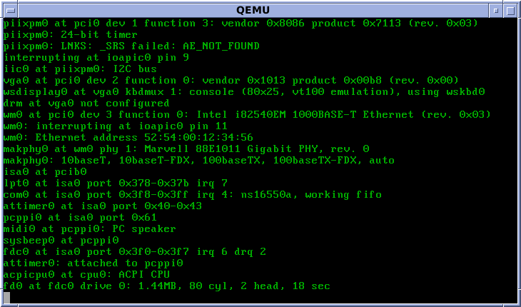 NetBSD 6.1 startup with kernel messages in green. Running in a QEMU VM.